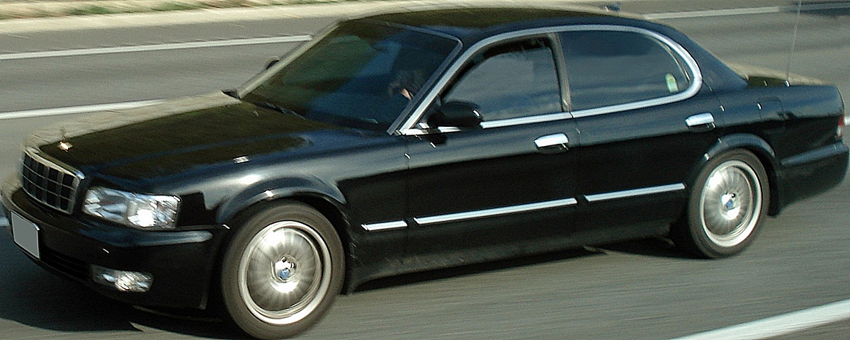 Kia Enterprise